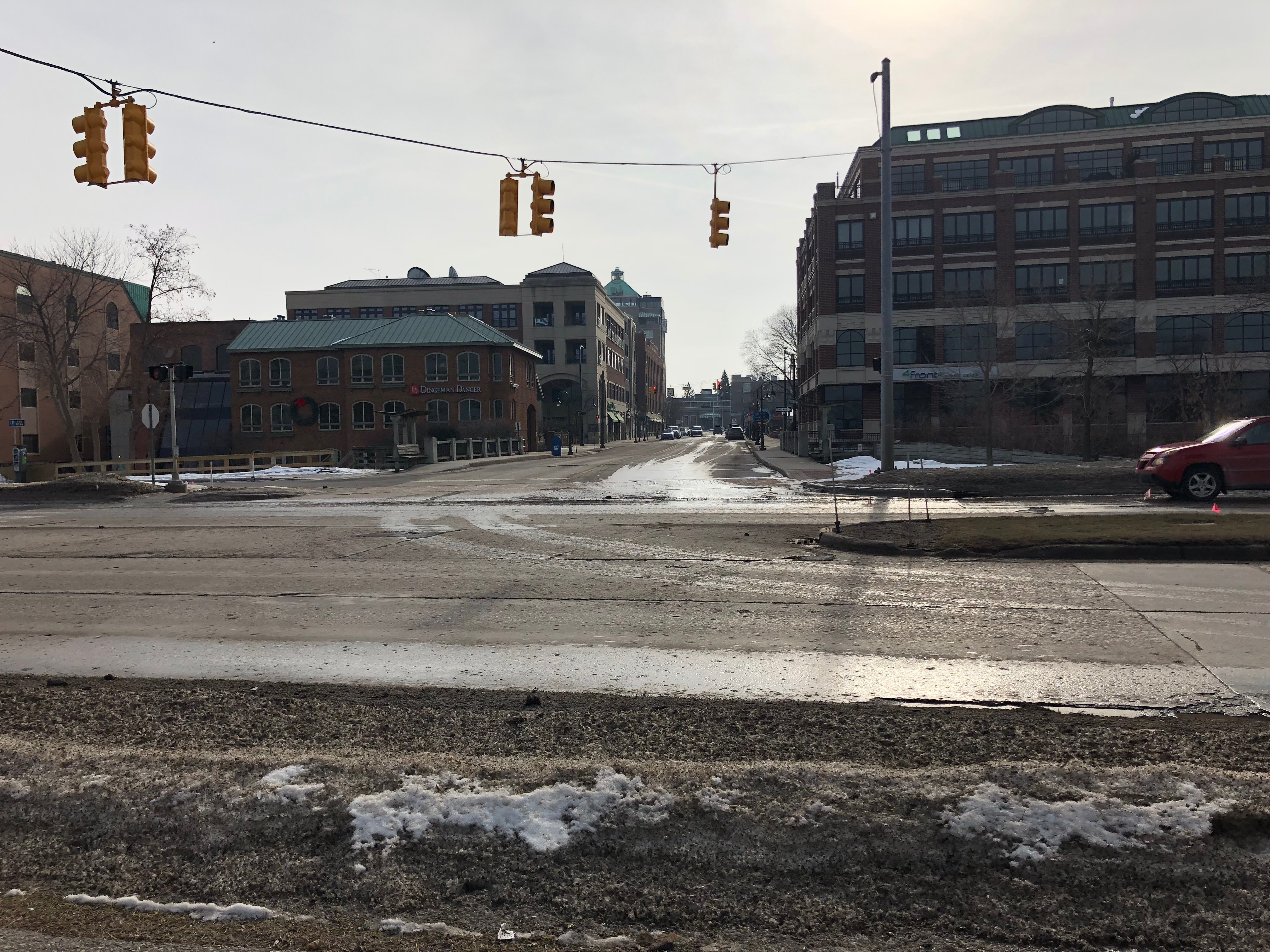 Skyline of Traverse City at the corner of Grandview Parkway and Park Street